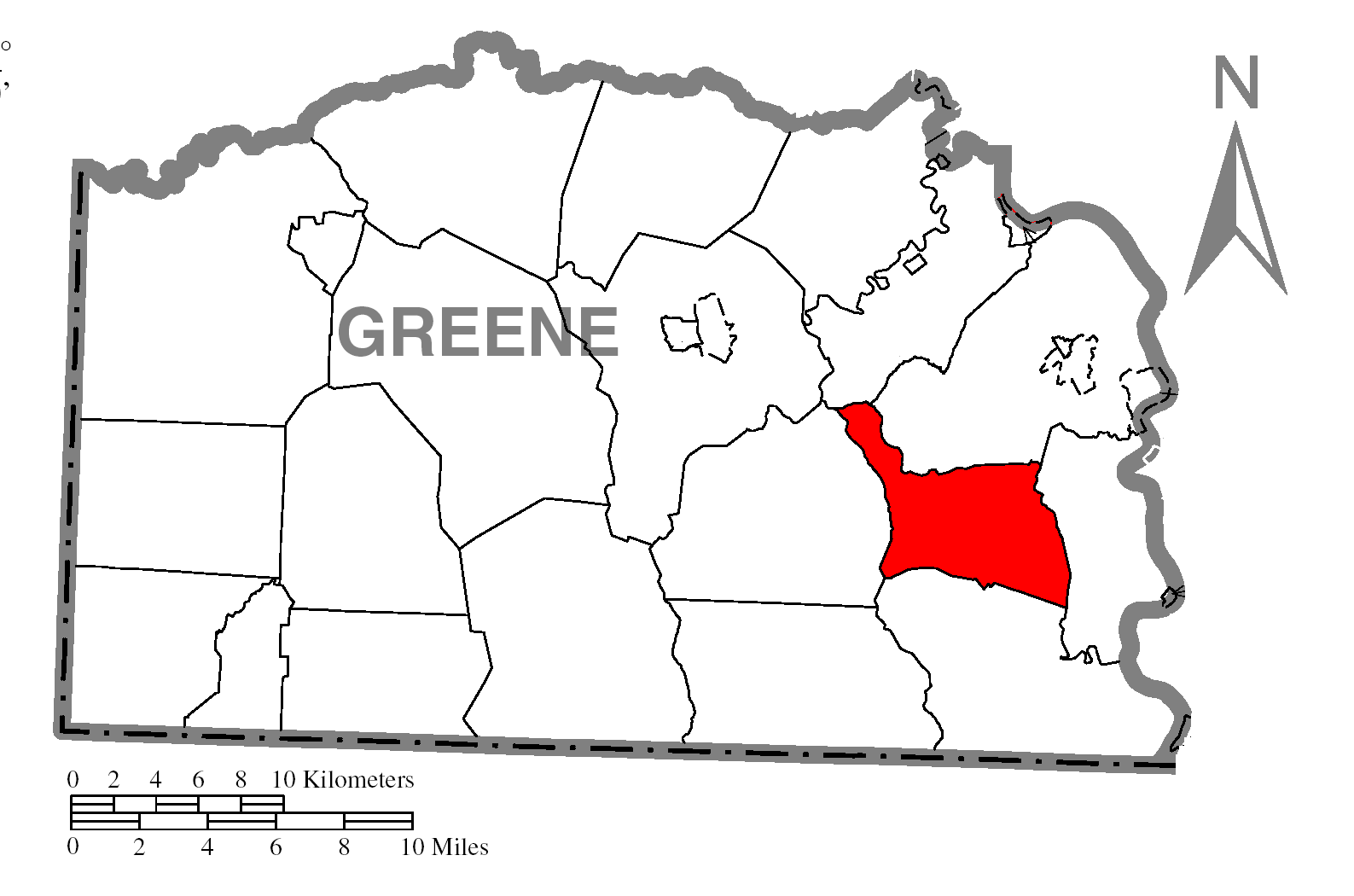 Map of Greene County higlighting Greene Township.